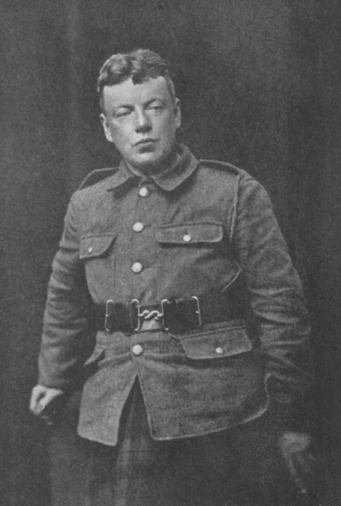 Portrait of Cecil Chesterton, by Russell & Sons, n.d.